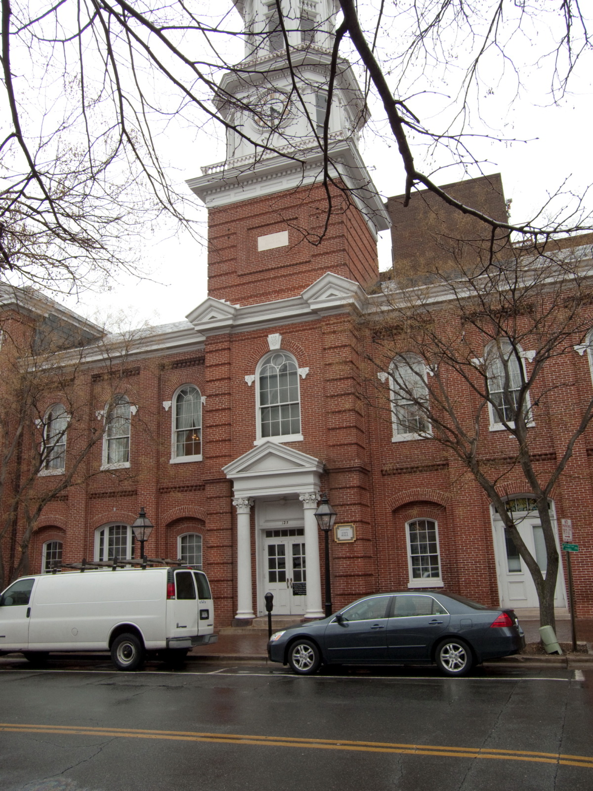 Alexandria City Hall, Virginia, USA